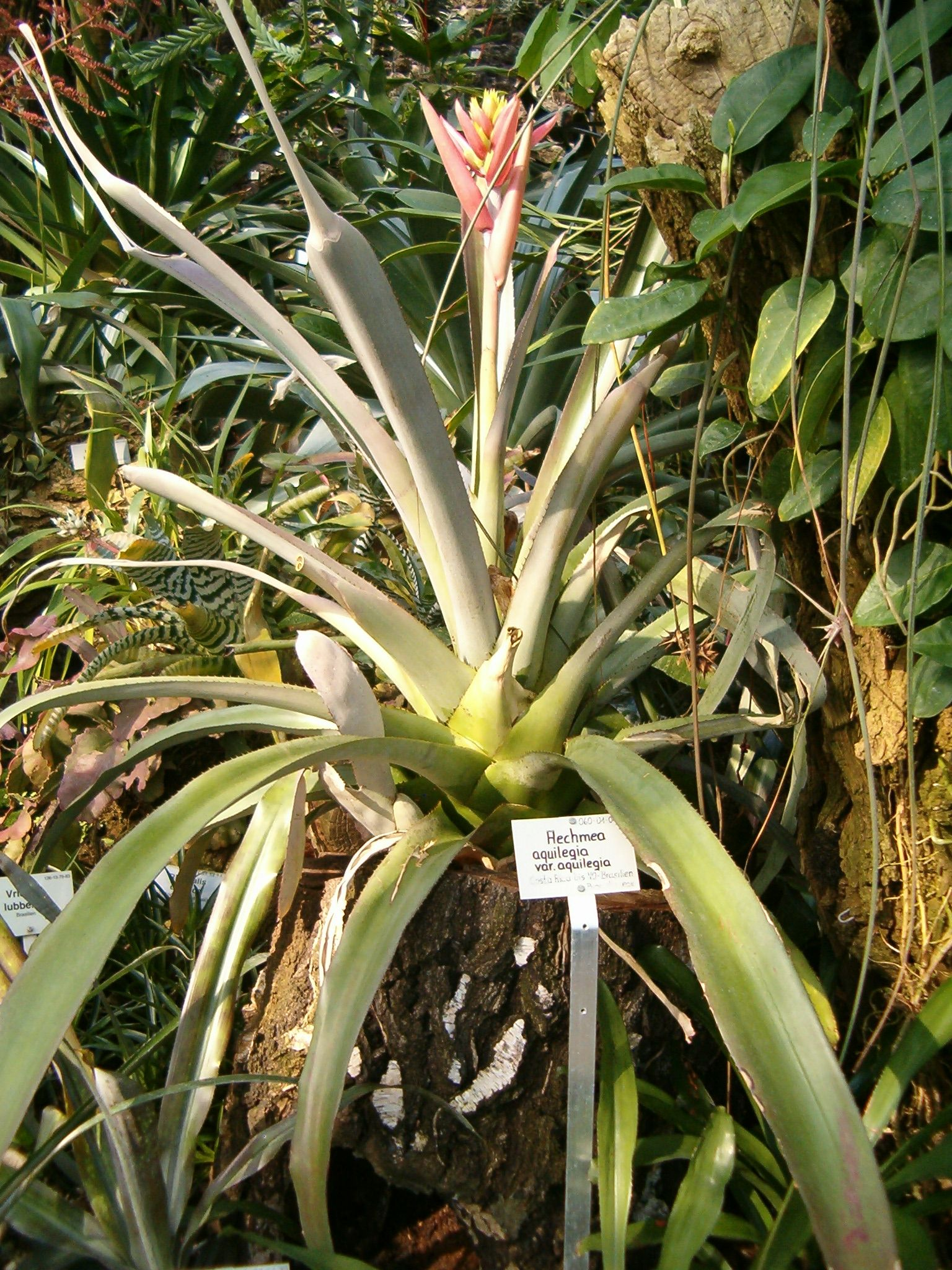 Name Aechmea aquilegia Genus Aechmea Family Bromeliaceae Location Berlin Botanical Gardens Berlin-Dahlem